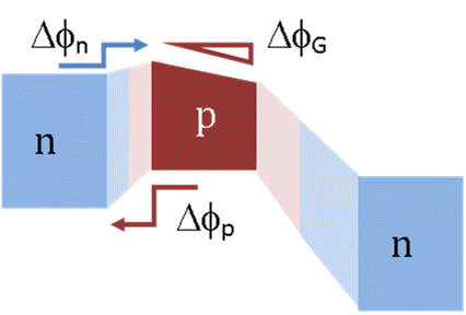 schematic pnp heterostructure bands